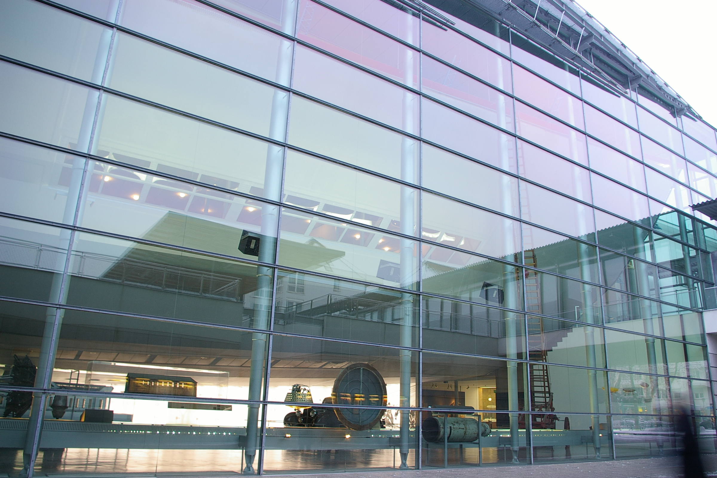 1:1 replica of Zeppelin LZ129 "Hindenburg" seen through the glass windows